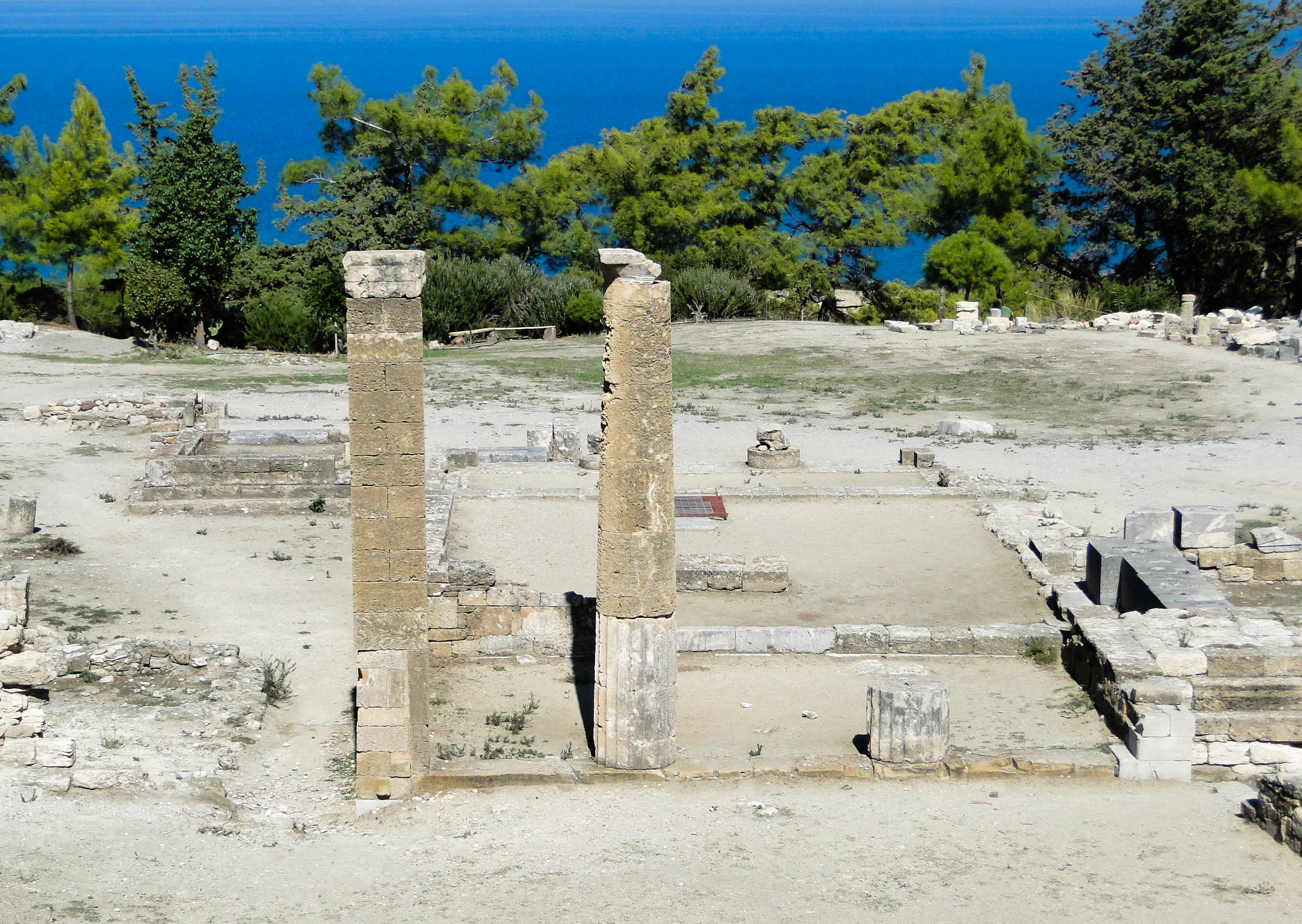 Temple of Pythian Apollo in the site of Kameiros, Rhodes, Greece